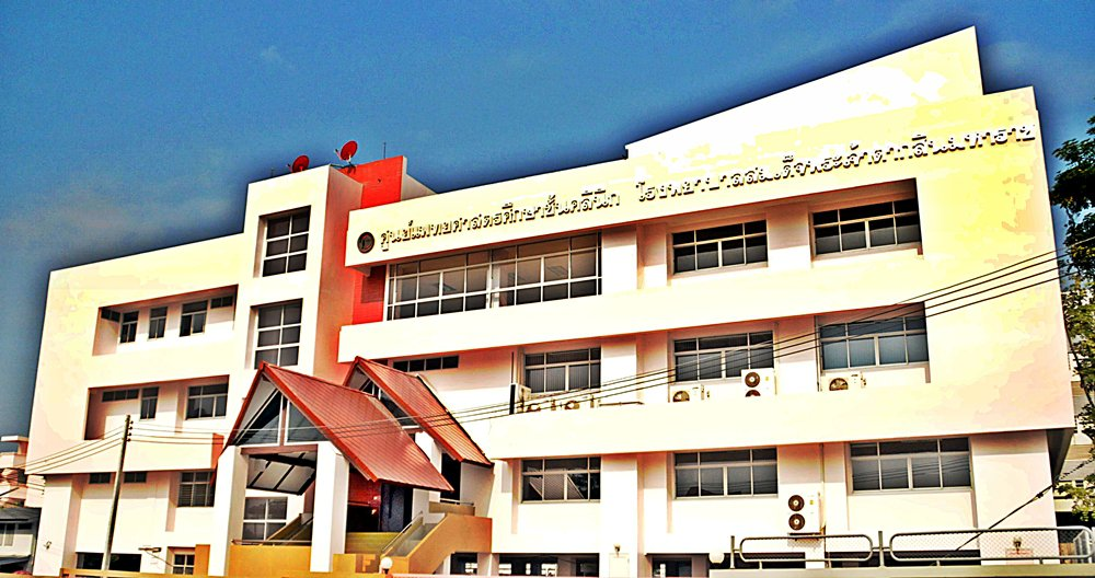 TSM Medical Education Center Building